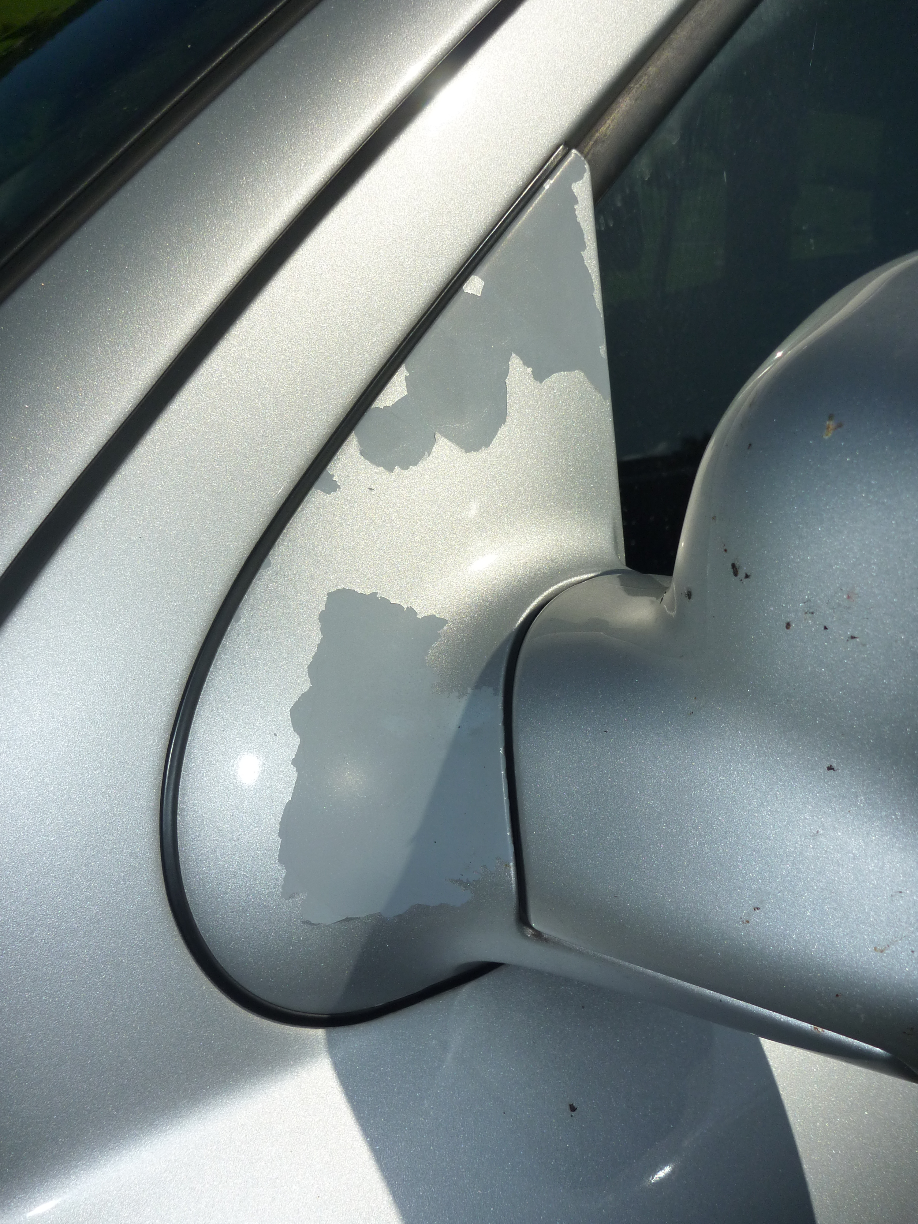 Delamination of an automotive coating on plastic substrat